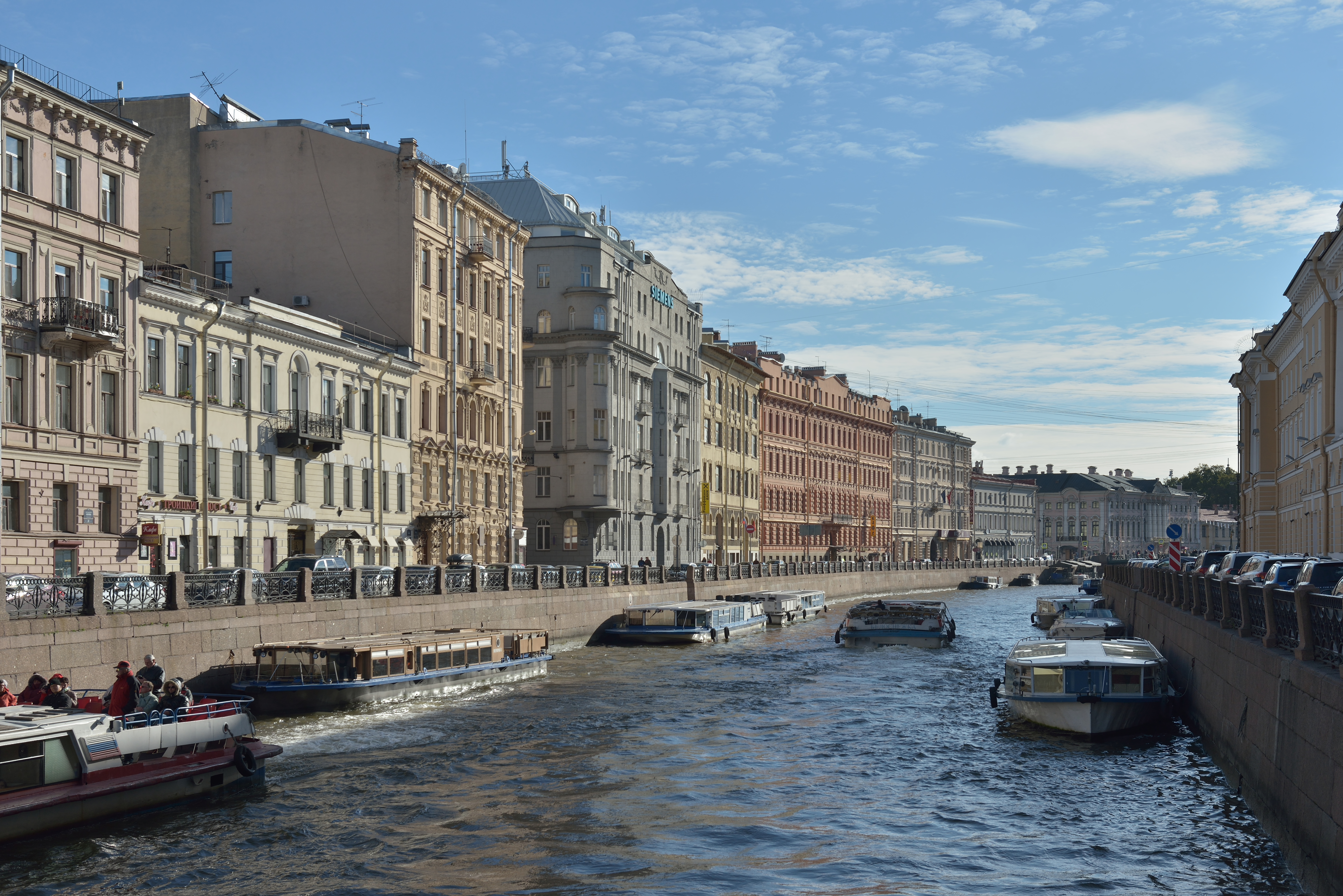 View South from the Pevchesky bridge of the Moyka River in Saint Petersburg.